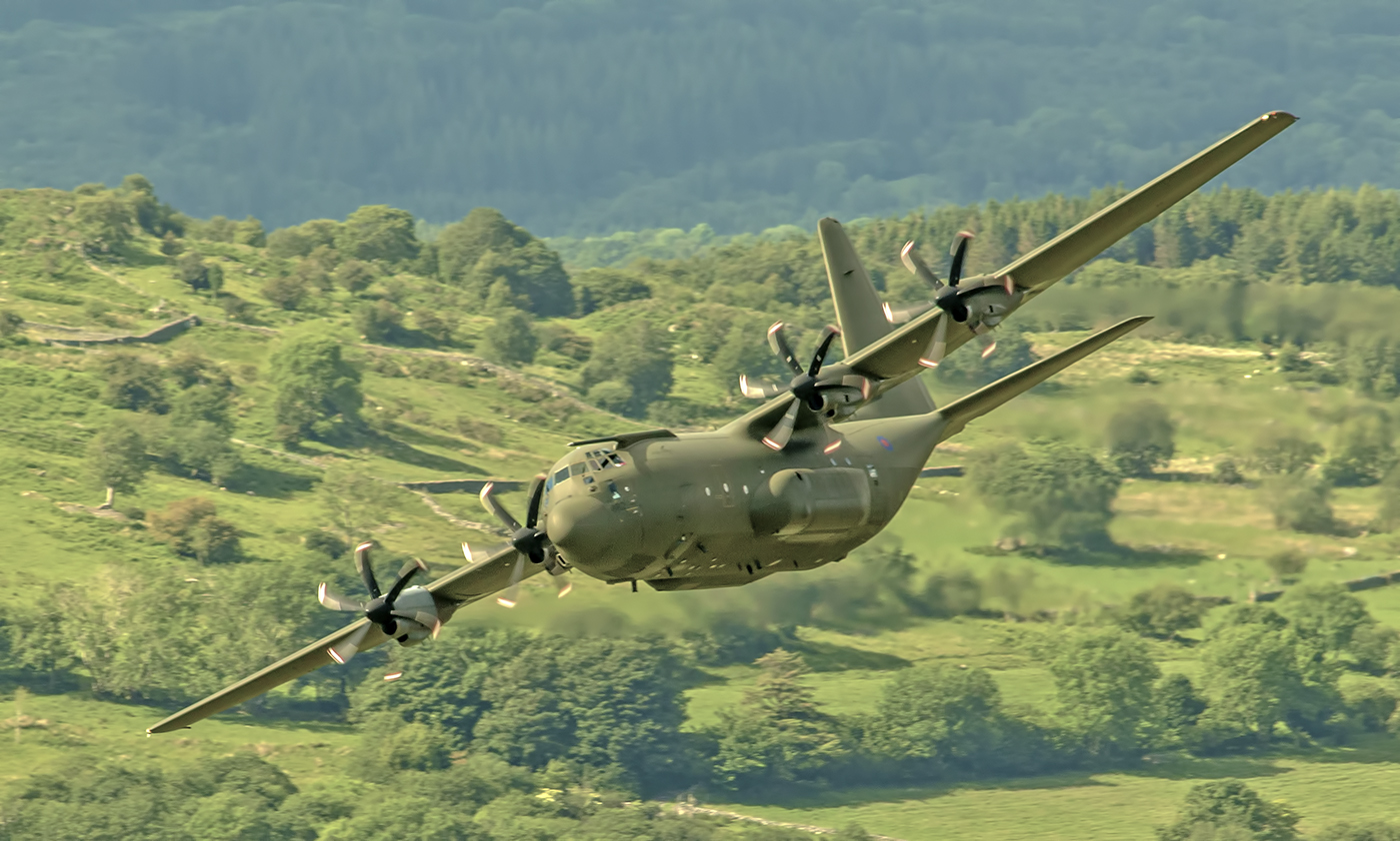 Low flying Through the Mach Loop, CAD East